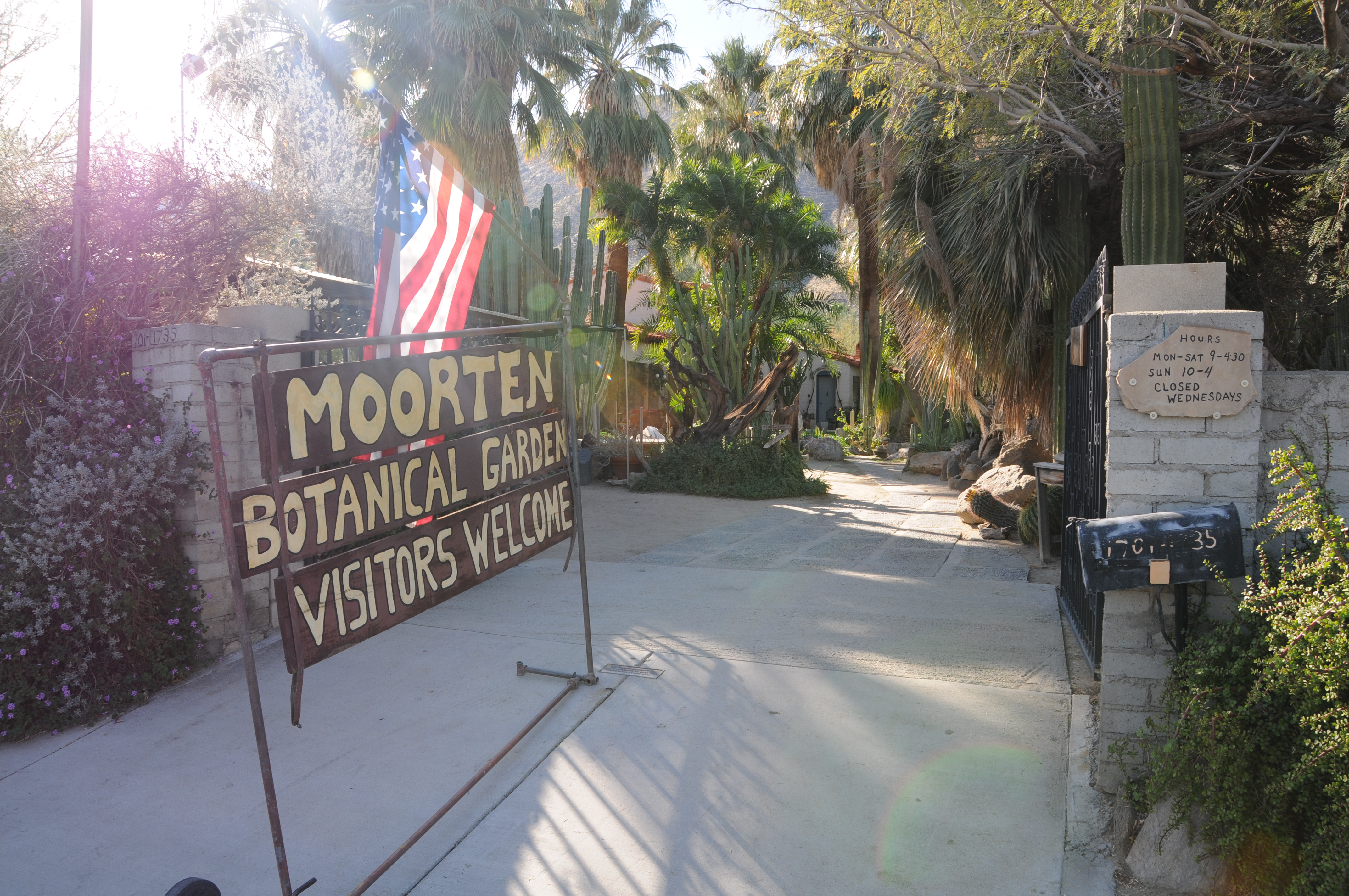 Moorten Garden antrance. Palm Springs, California